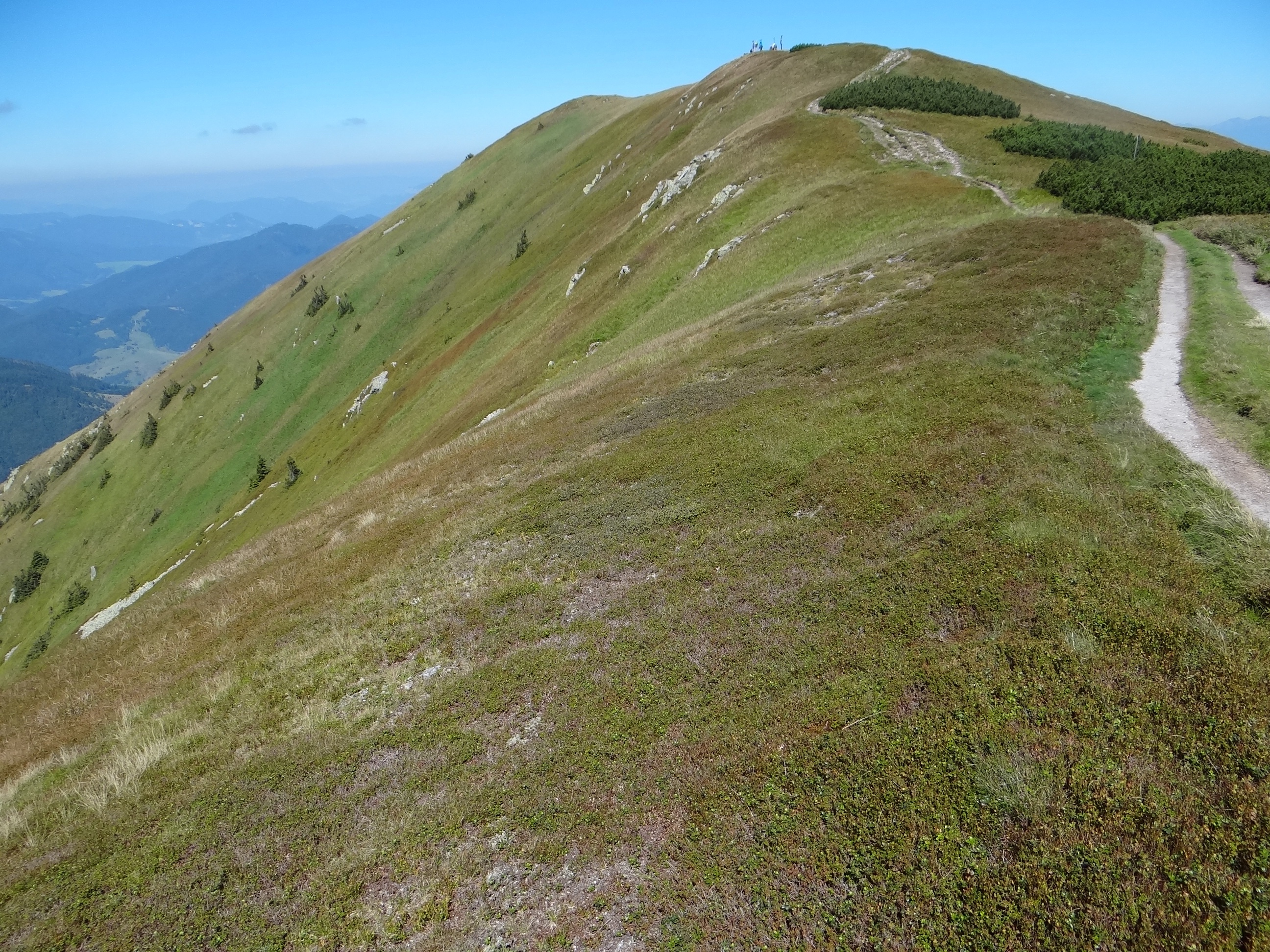 Veľká Chochuľa, view from Maľá Chochuľa